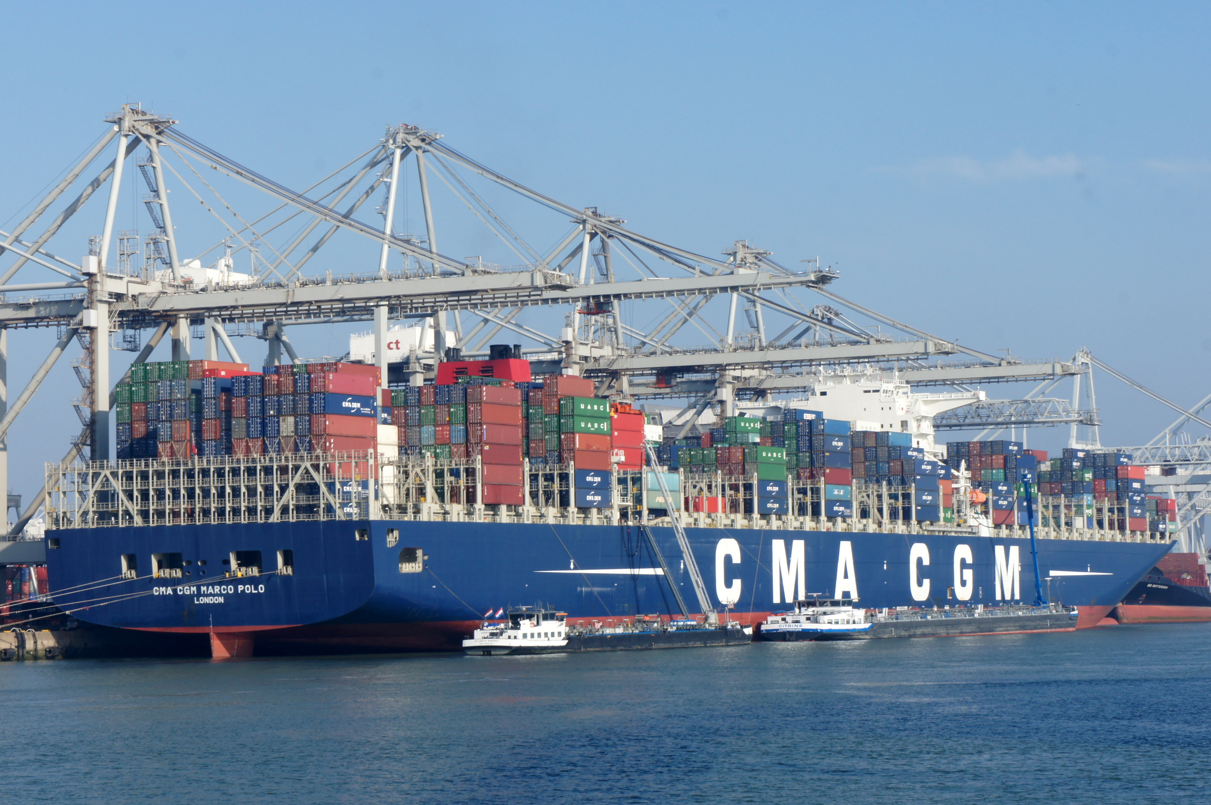 CMA CGM Marco Polo IMO 9454436, Amazonehaven, Port of Rotterdam.